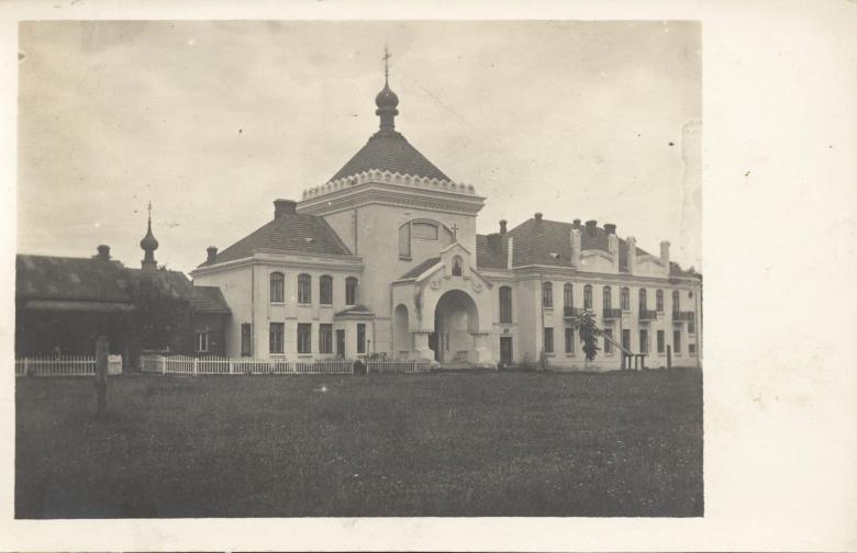 Orthodox monastery in Turkowice. A postcard from Aleksander Sosna's collection.